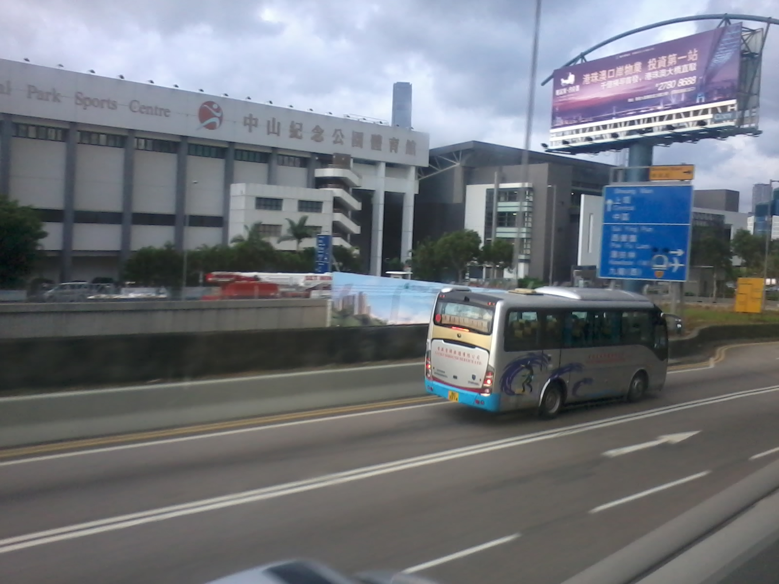 Connaught Road West, Hong Kong